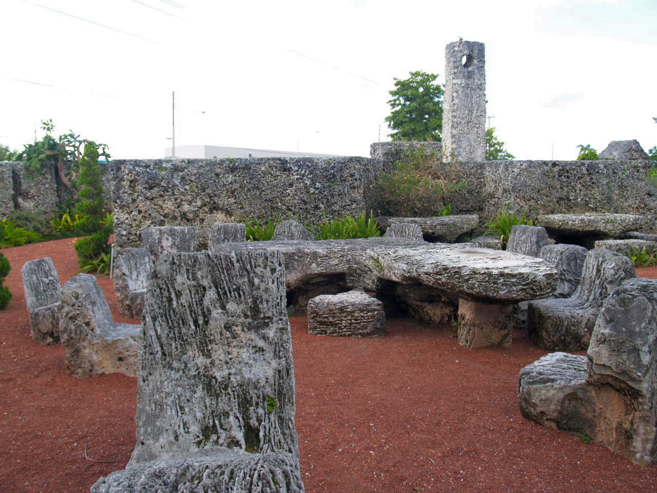 Coral Castle in Homestead, Florida